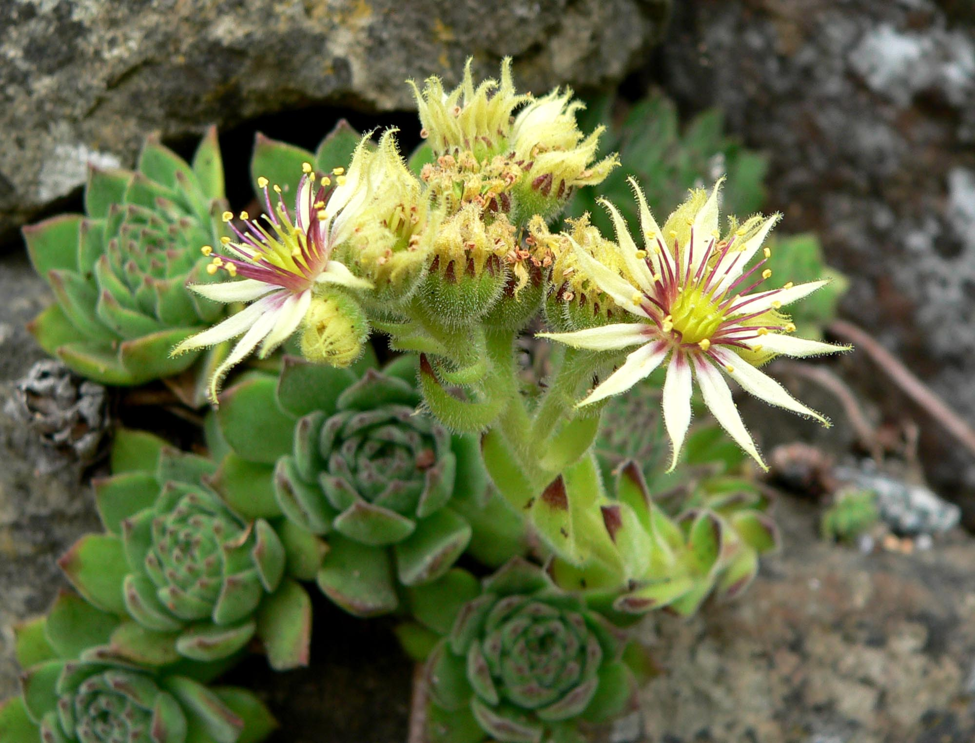 Photo of Sempervivum grandiflorum at the UBC Botanical Garden in Vancouver